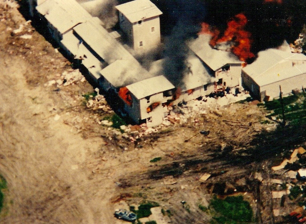 Fire spreads rapidly to other second floor bedrooms.